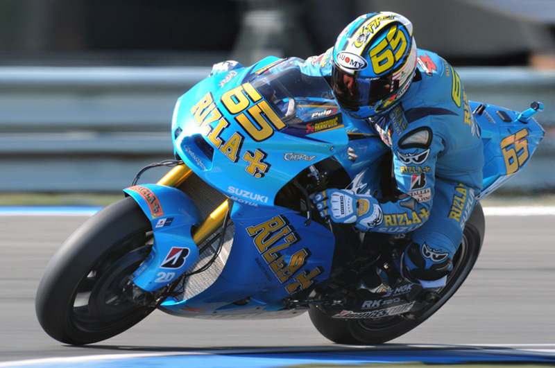 Loris Capirossi 2010 Assen